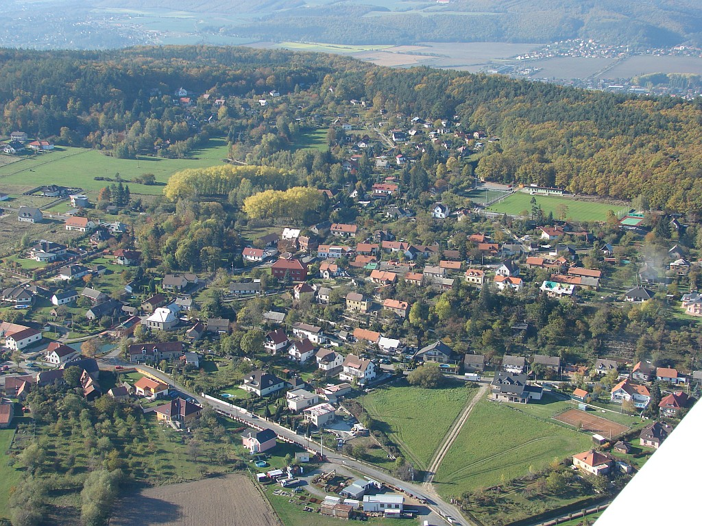 Aerial view of Černolice village, Central Bohemia, Czech Republic